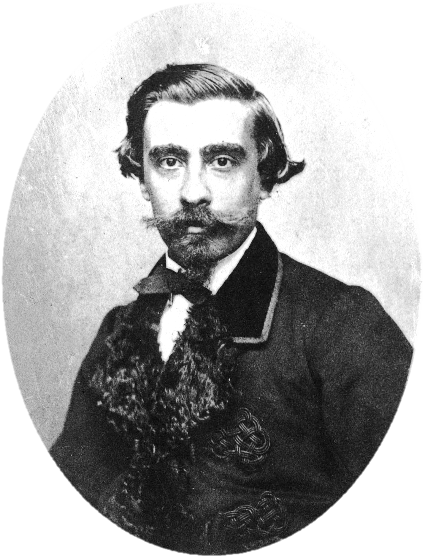 Júlio de Castilho, 2nd Viscount of Castilho (1840-1919), writer and olisipographer.